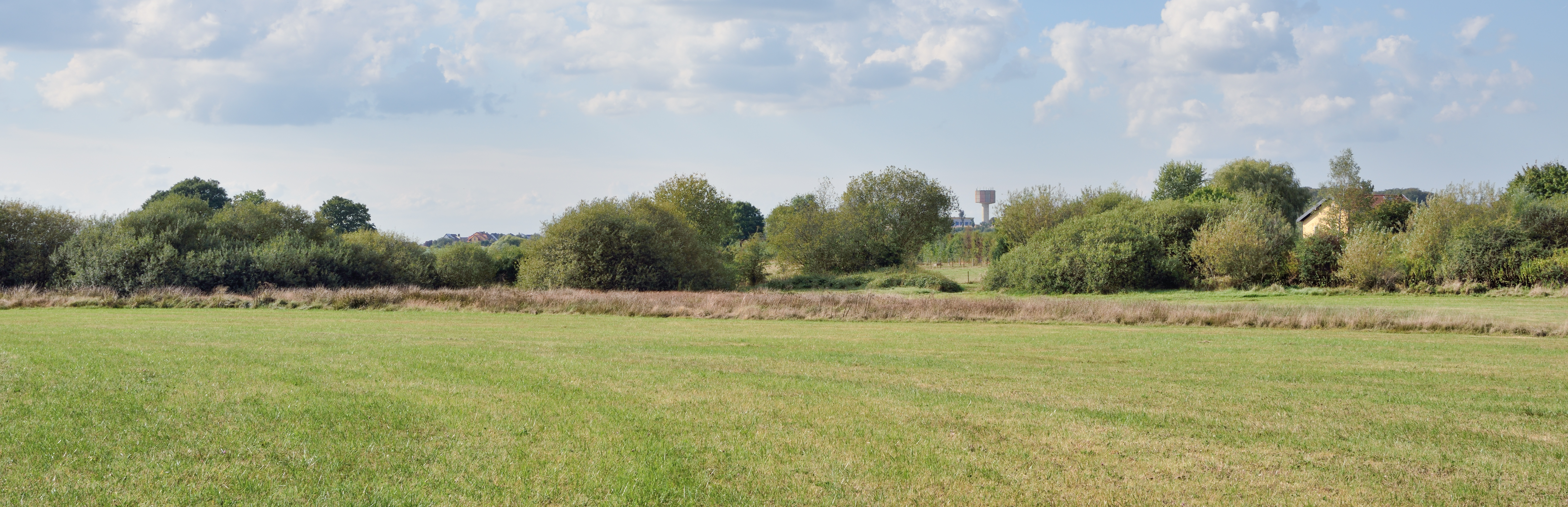 Nature Reserve Boufferdanger Muer in Luxembourg, commune of Käerjeng.